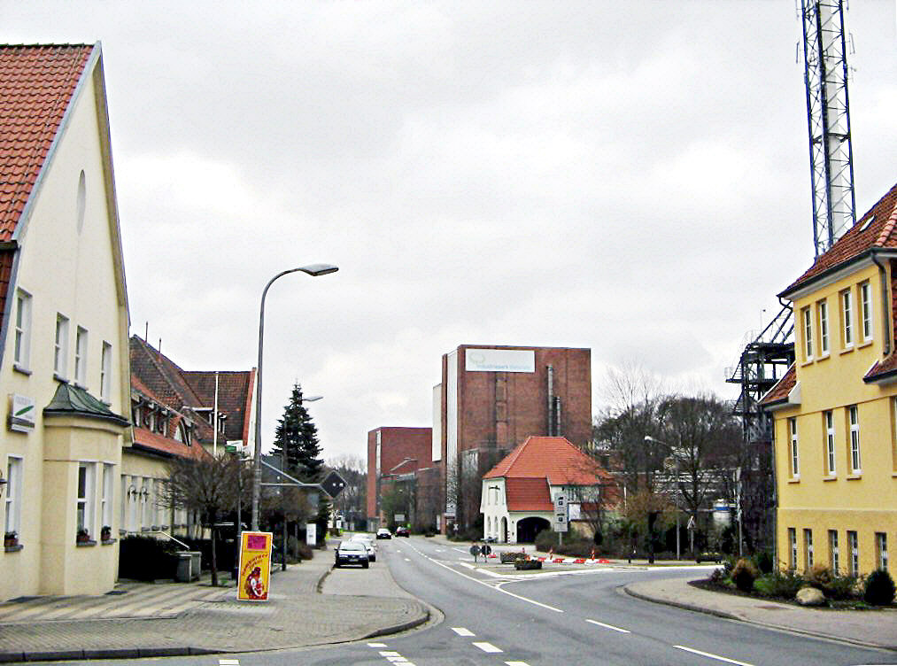 Bomlitz (Lower Saxony, Germany) with old part of Wolff industrial site, today Dow Wolff Cellulosics